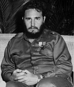 Fidel Castro in 1960, Havana, Cuba.